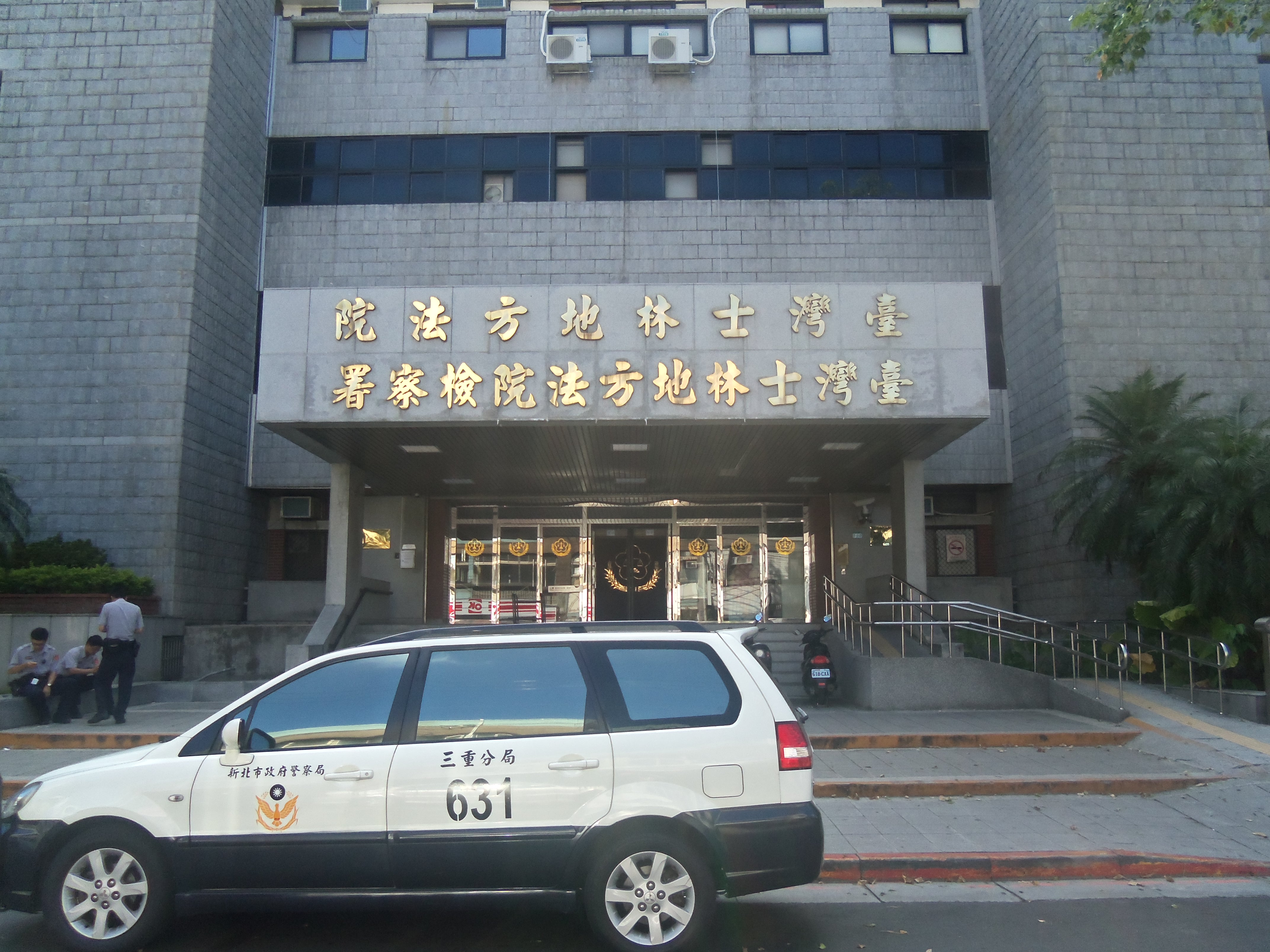 Taiwan Shilin District Court and a Mitsubishi police car of Sanchong Precinct, New Taipei City Police Department.中文（台灣）: 臺灣士林地方法院與臺灣士林地方法院檢察署。新北市政府警察局三重分局三菱警車停在大門前。